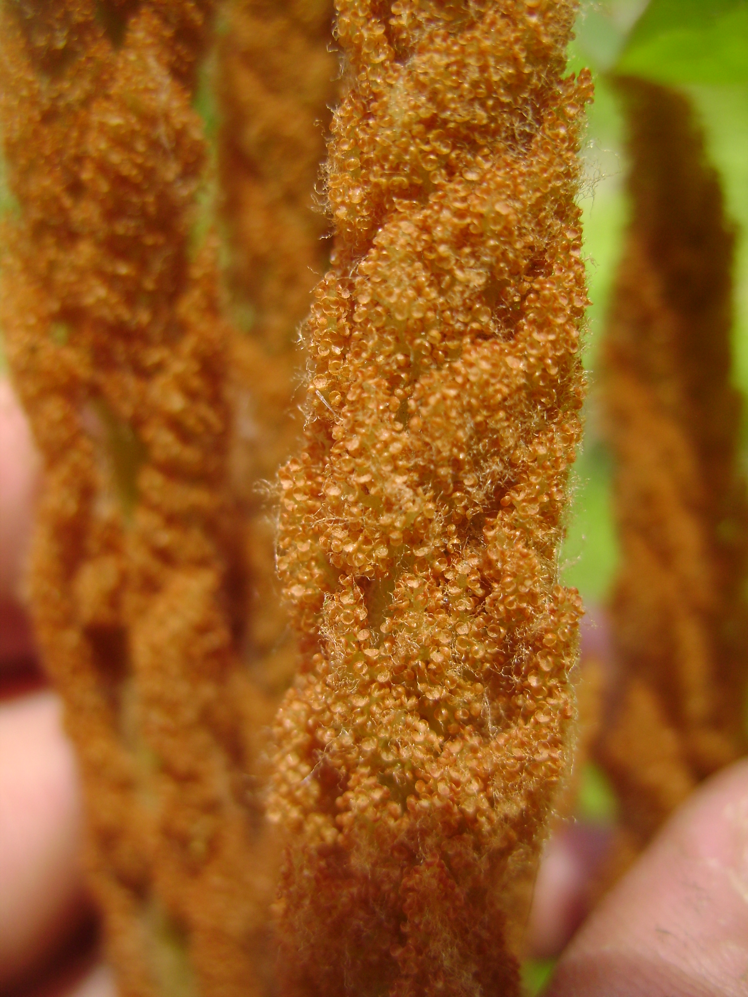 Close up of a spore-bearing frond of Osmundastrum cinnamomeum (=Osmunda cinnamomea), taken in the Cavée, in Saint-Pacôme, Québec.